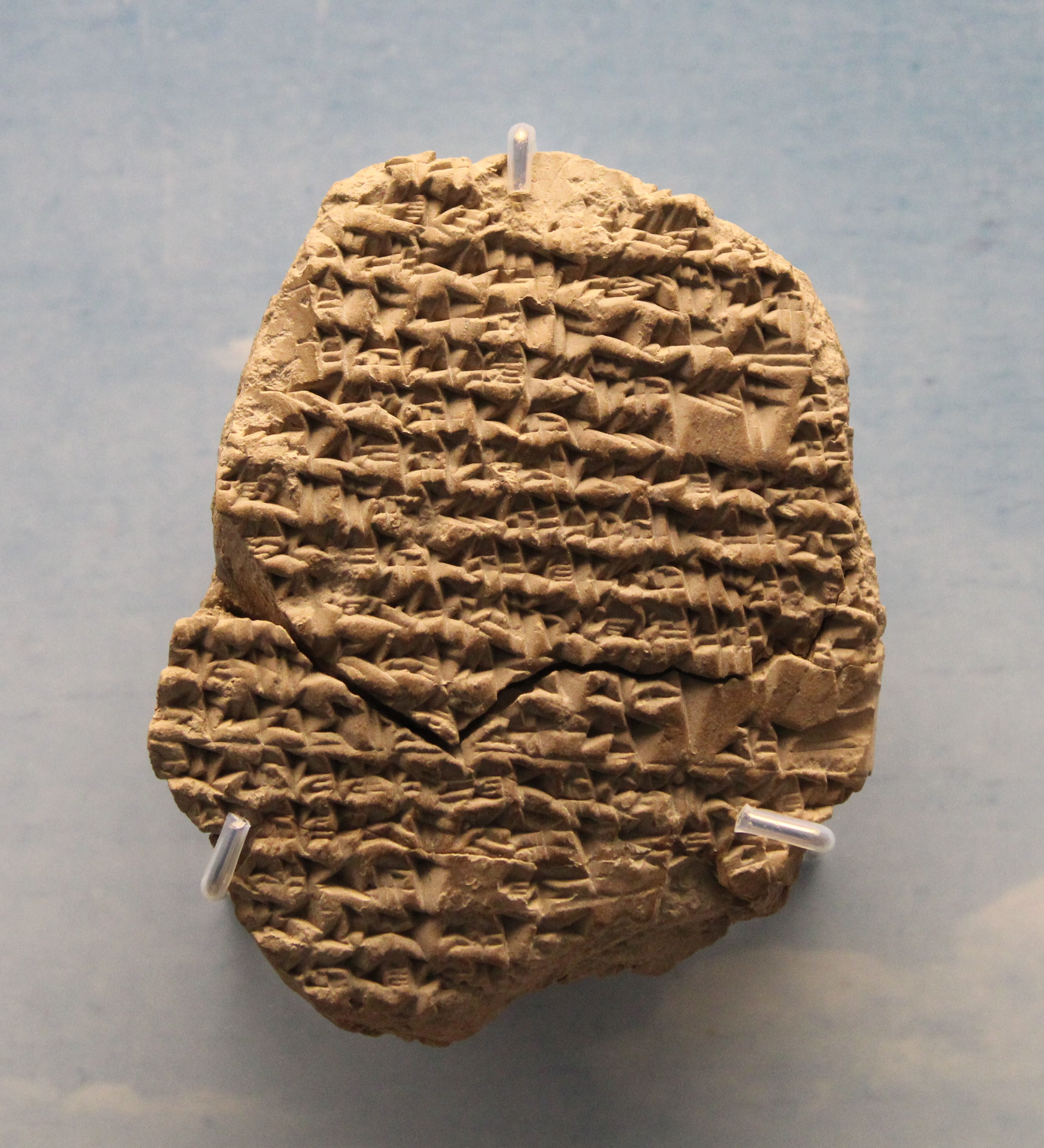 "Esagil tablet", fragment BM 40813. This tablet gives the dimensions of Etemenanki, the ziggurat of Babylon. Another fragment is at the Louvre Museum.